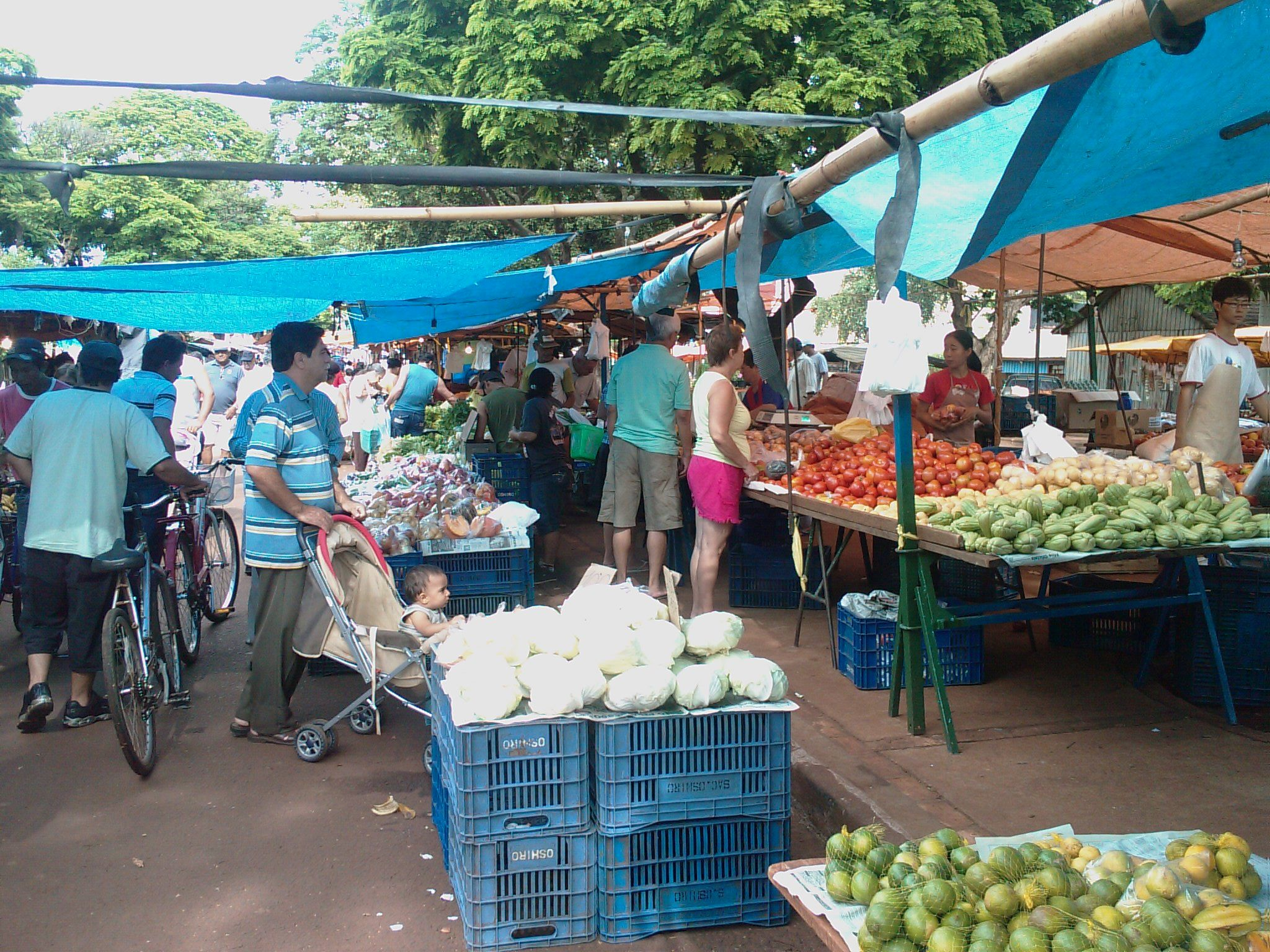 View of the Feira (market) held in Dourados, [1]Mato Grosso do Sul[2], Brazil, every Saturday night and Sunday morning.